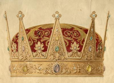 Norwegian painter Johannes Flintoe: crown_for_norwegian_crown prince_1846